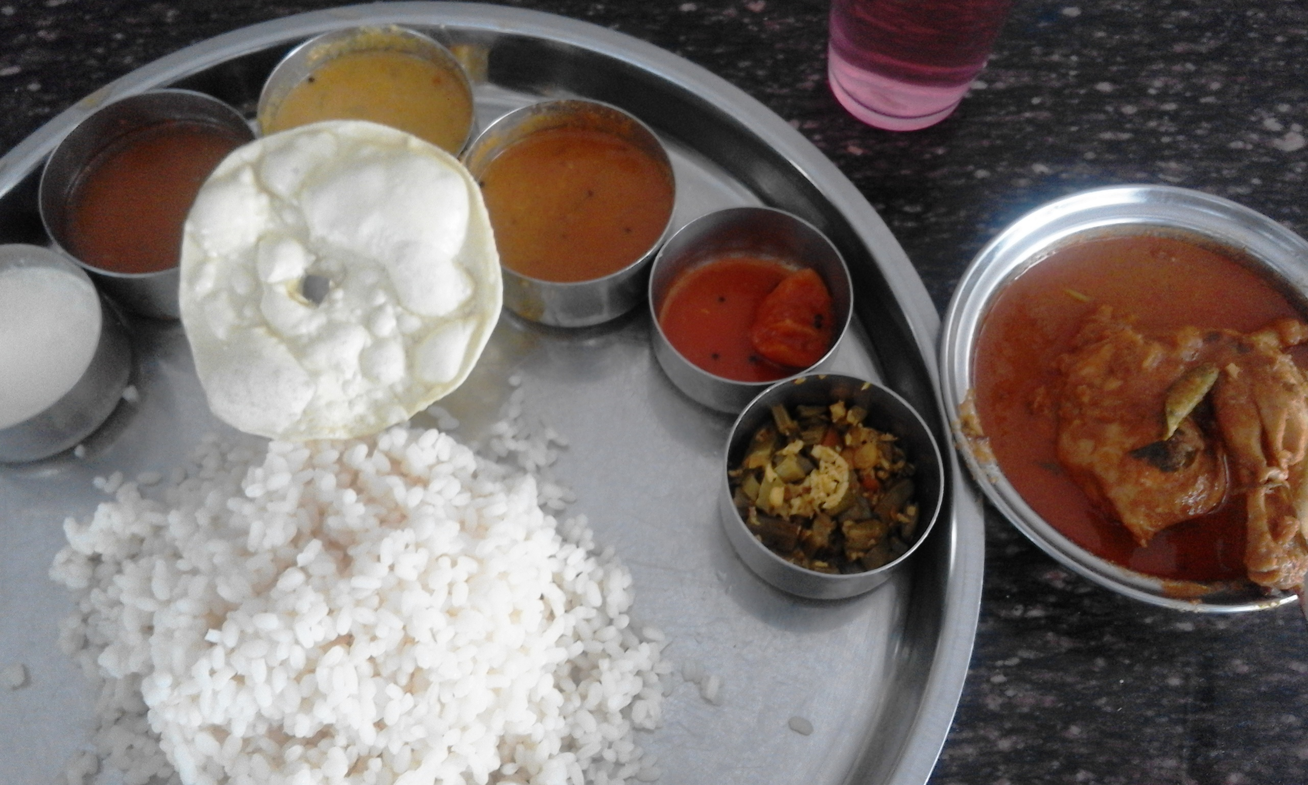 Olavakkod, Palakkad District, India.